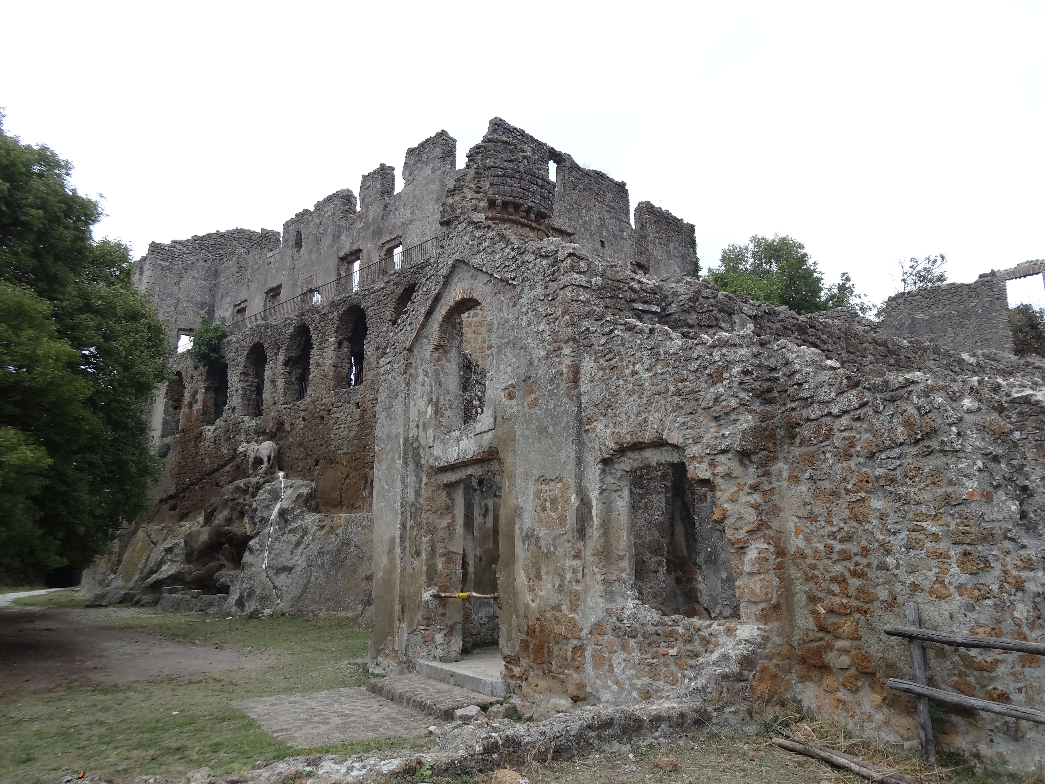 Fontana e castello a Monterano